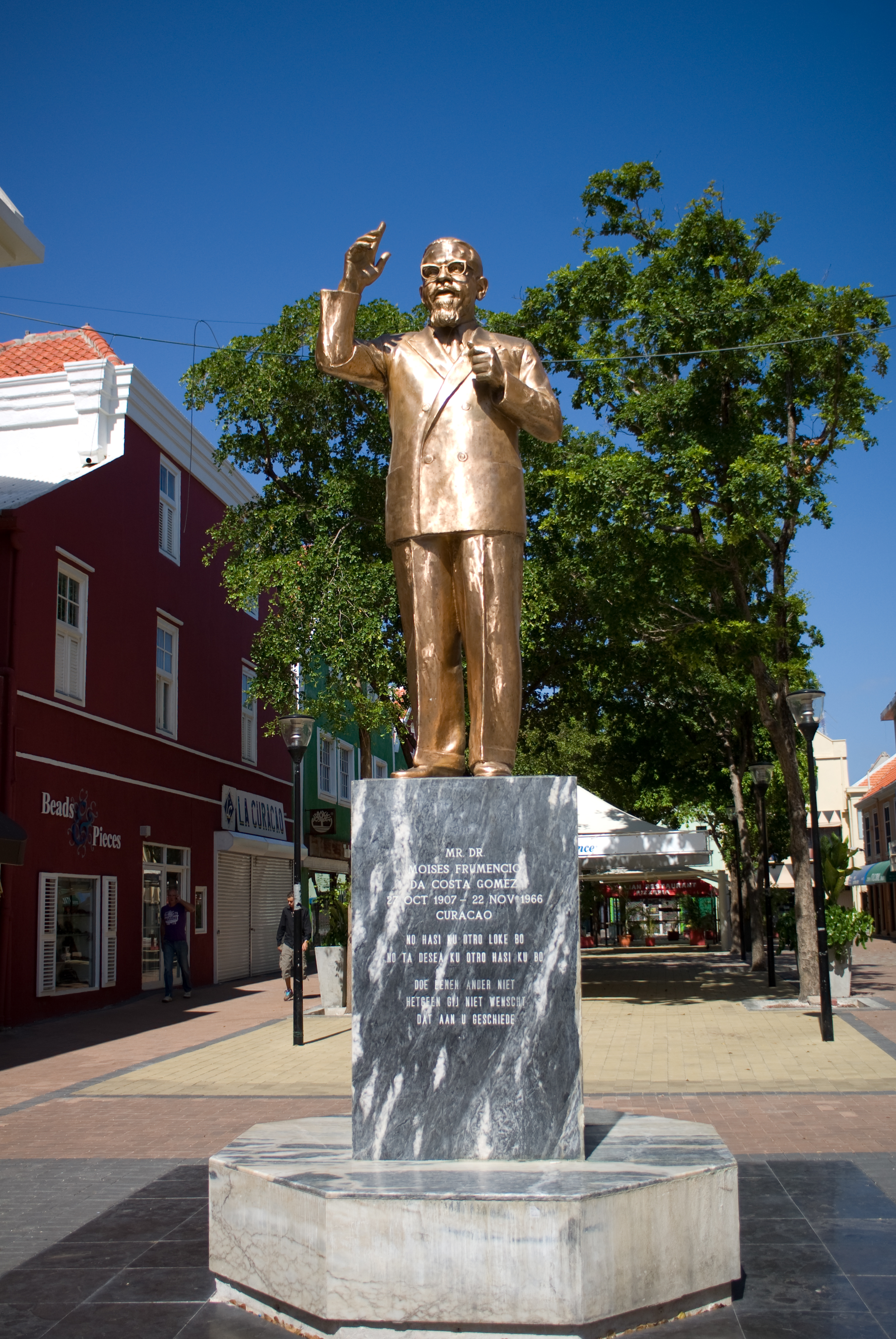 Statue of Doctor Moises Frumencio da Costa Gomez Founder of the National People's Party (PNP) and former prime minister of the Netherlands Antilles, Gomez played a major role in the fight for autonomy from the Netherlands.